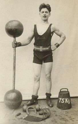 John Grün (1868-1912) from Mondorf-les-Bains, Luxembourg, who was believed to be the strongest man in the world